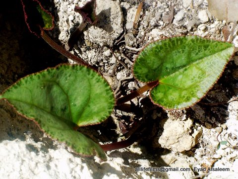 نبات برّي سوري يؤكل